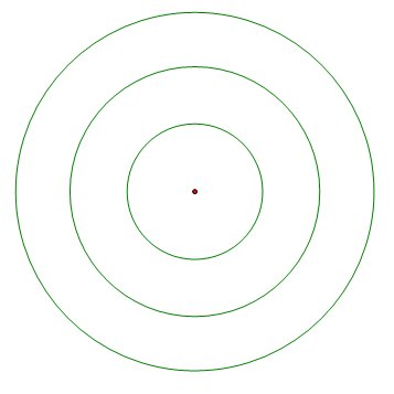 concentric circles